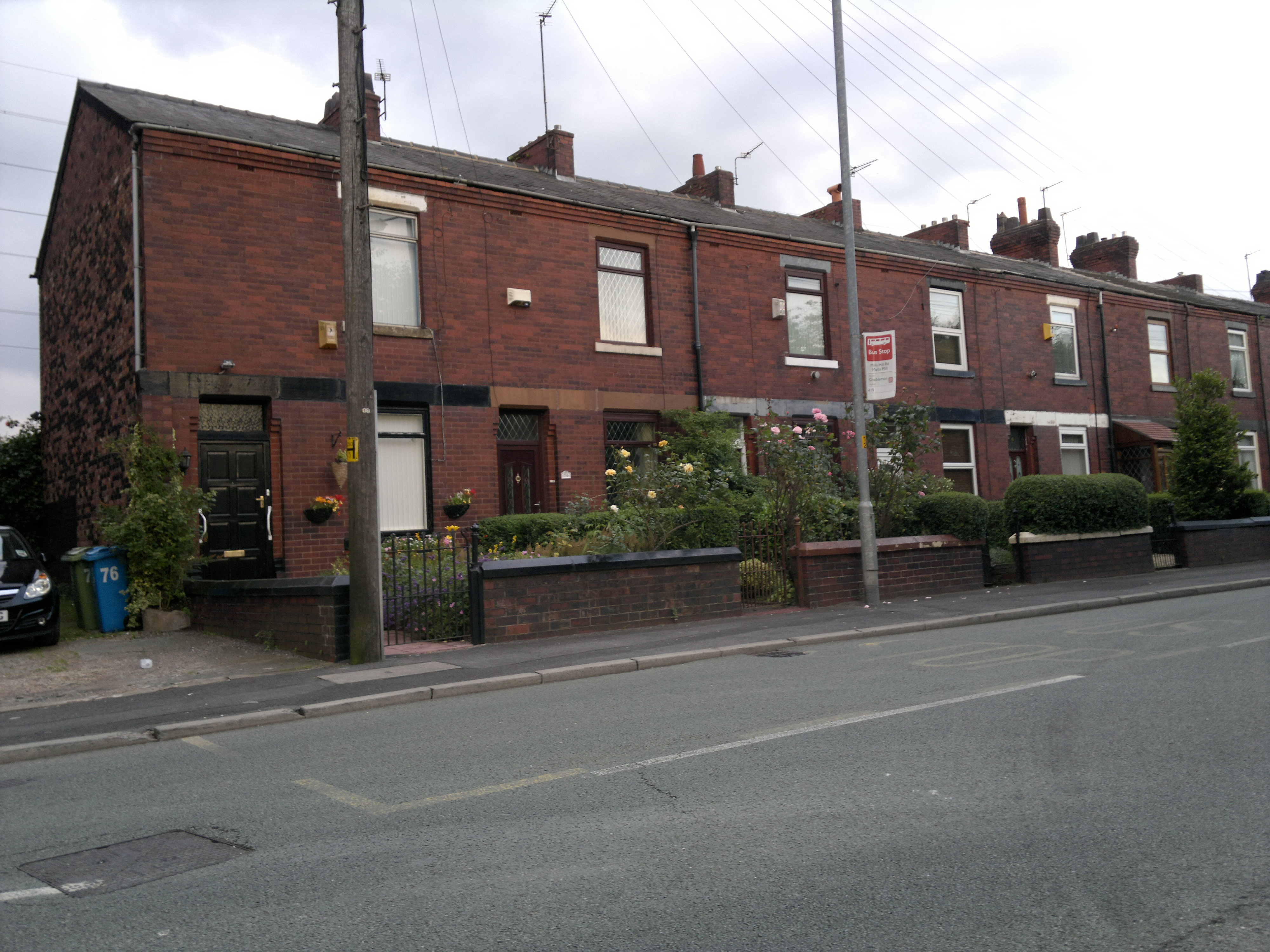 76 to 68 Mills Hill Road, Chadderton